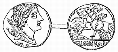 Coin depicting Aulus Postumius Albus Regillensis. From the DGRBM: "Many of the coins of the Albini commemorate this victory of their ancestor, as in the one annexed. On one side the head of Diana is represented with the letters roma underneath, which are partly effaced, and on the reverse are three horsemen trampling on a foot-soldier."